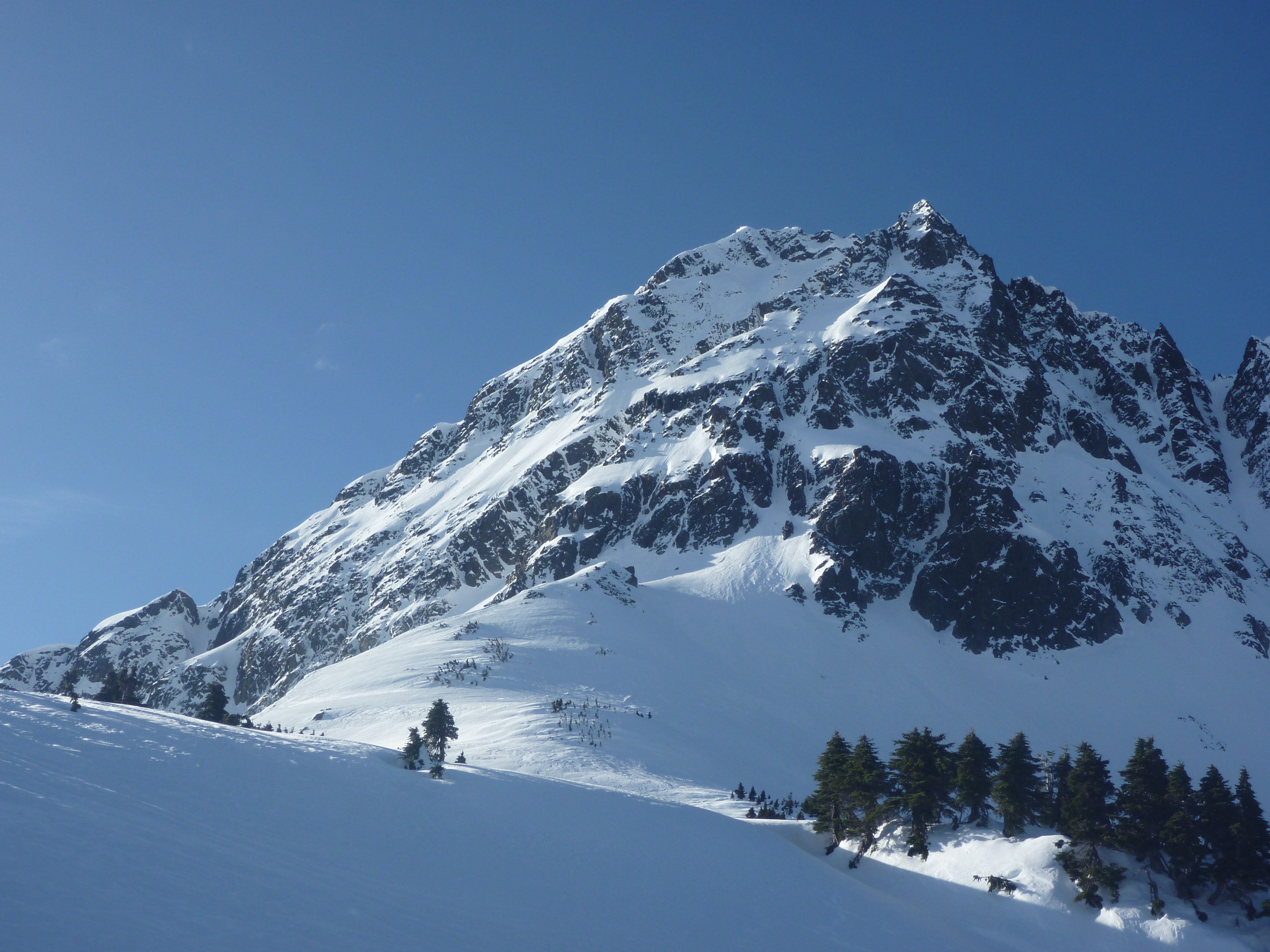 Mix-up Peak in winter. From Cascade Pass, North Cascades National Park